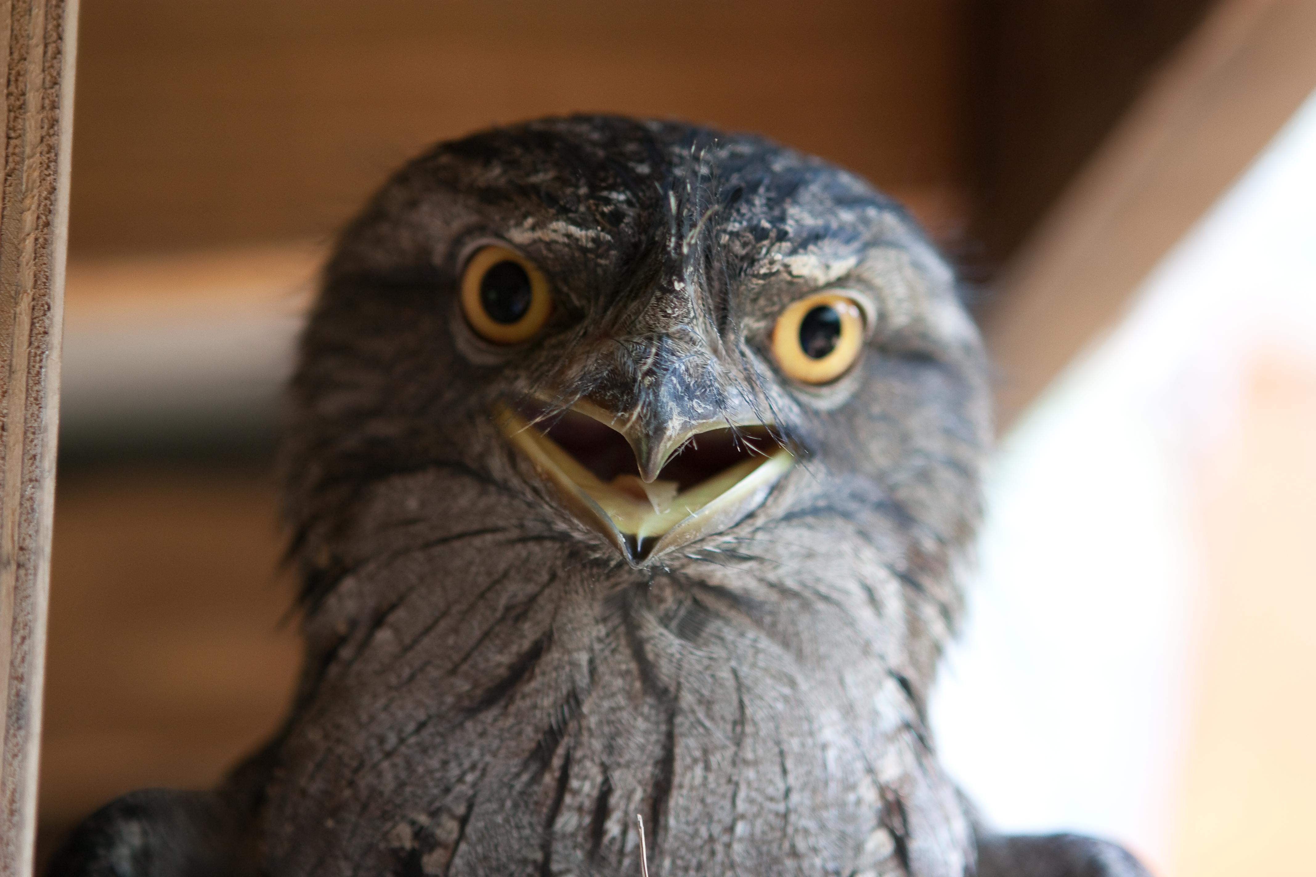 Tawny Frogmouth (Podargus strigoides) in Blackbutt Reserve, Newcastle, Australia